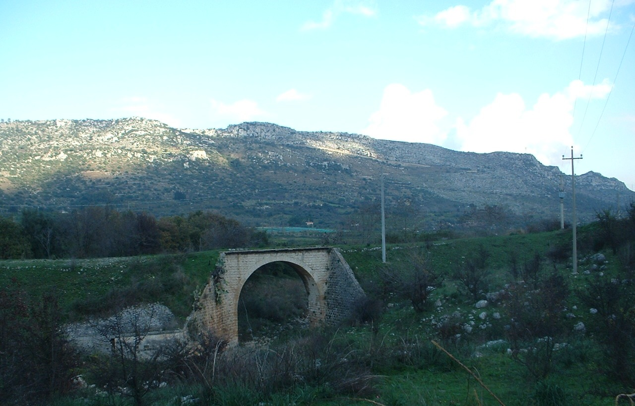 Railway bridge in the Siracusa-Ragusa-Vizzini old railway, near Solarino (SR) in Sicily, Italy